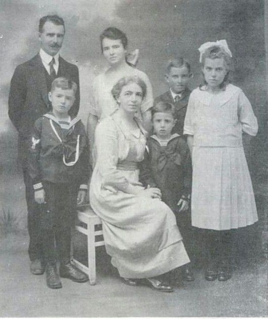 Family of German inmigrants in Costa Rica.